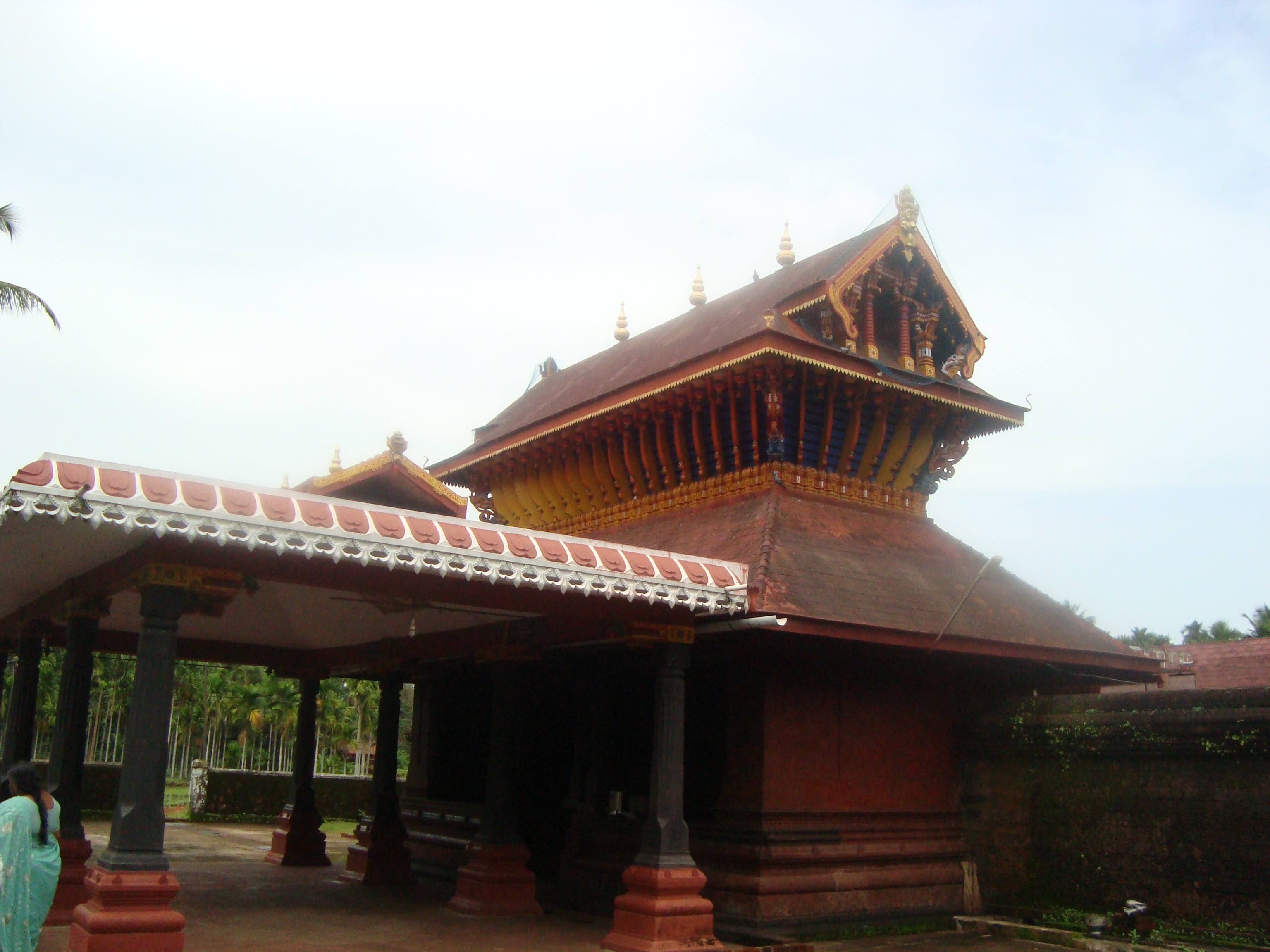 Kodoth Bhagavathi Temple, Kodom, Kasargod, Kerala